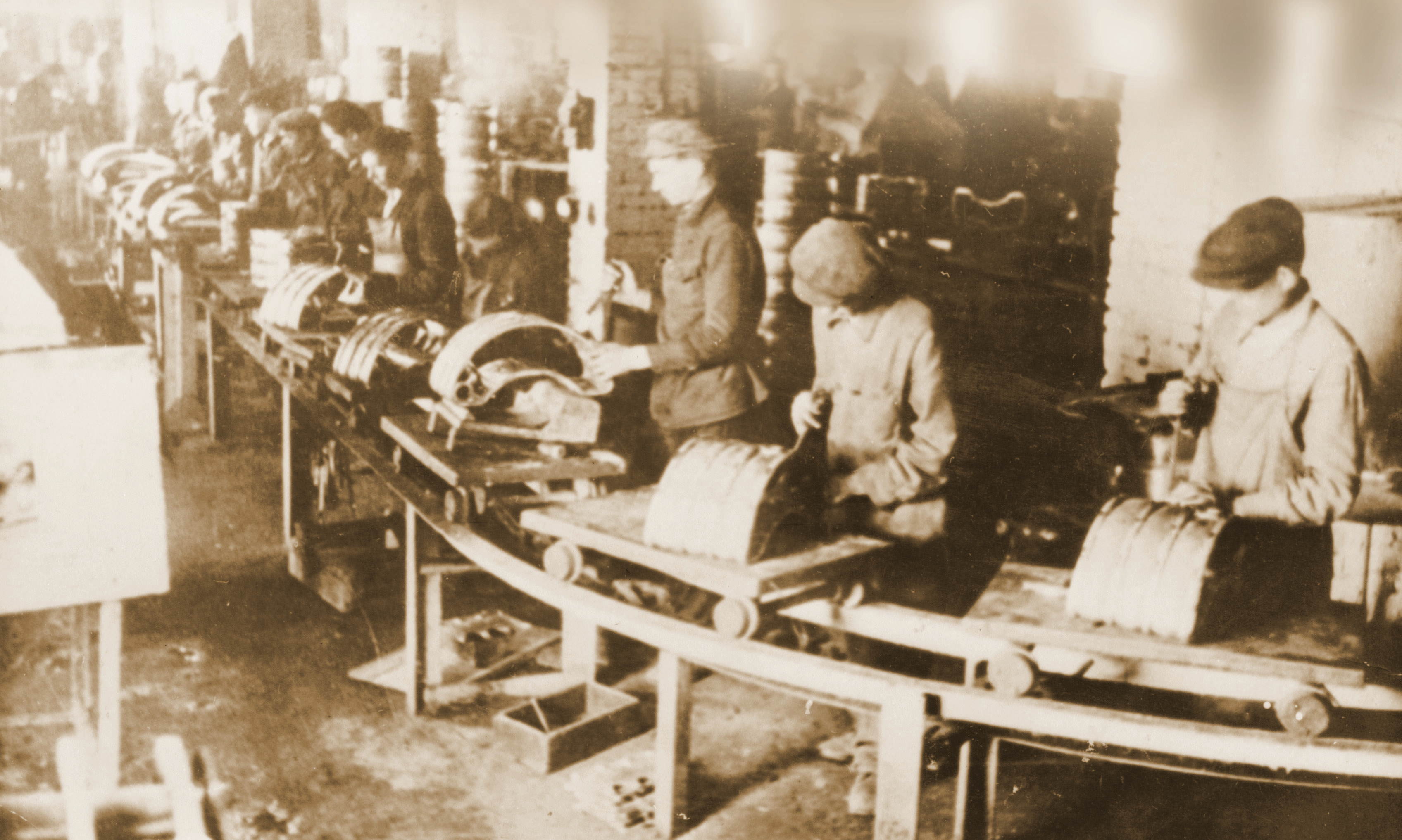 a flow-line conveyor in Teploobmennik (1943)